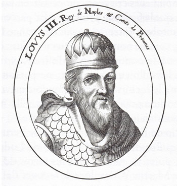 Louis III, duke of Anjou and titular king of Naples